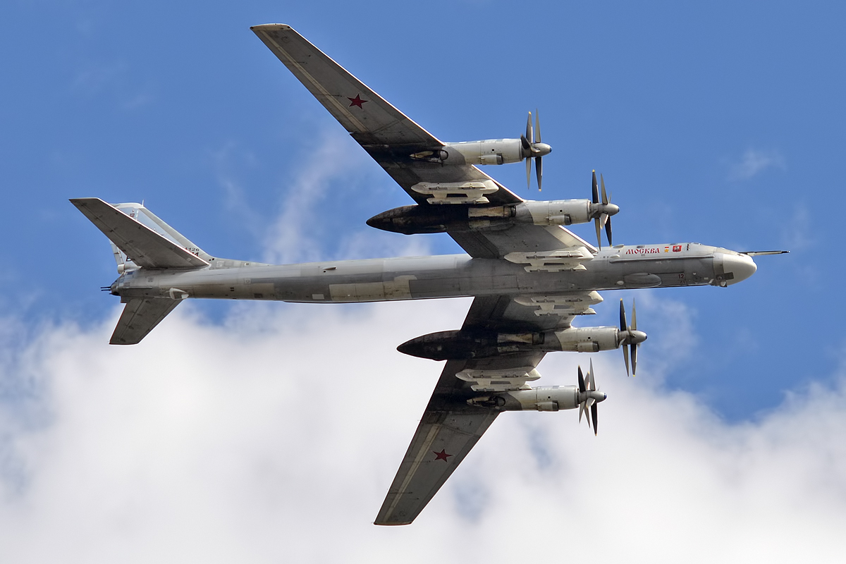 Russian Air Force, RF-94126, Tupolev Tu-95MS